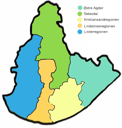 Regions of Southern Norway